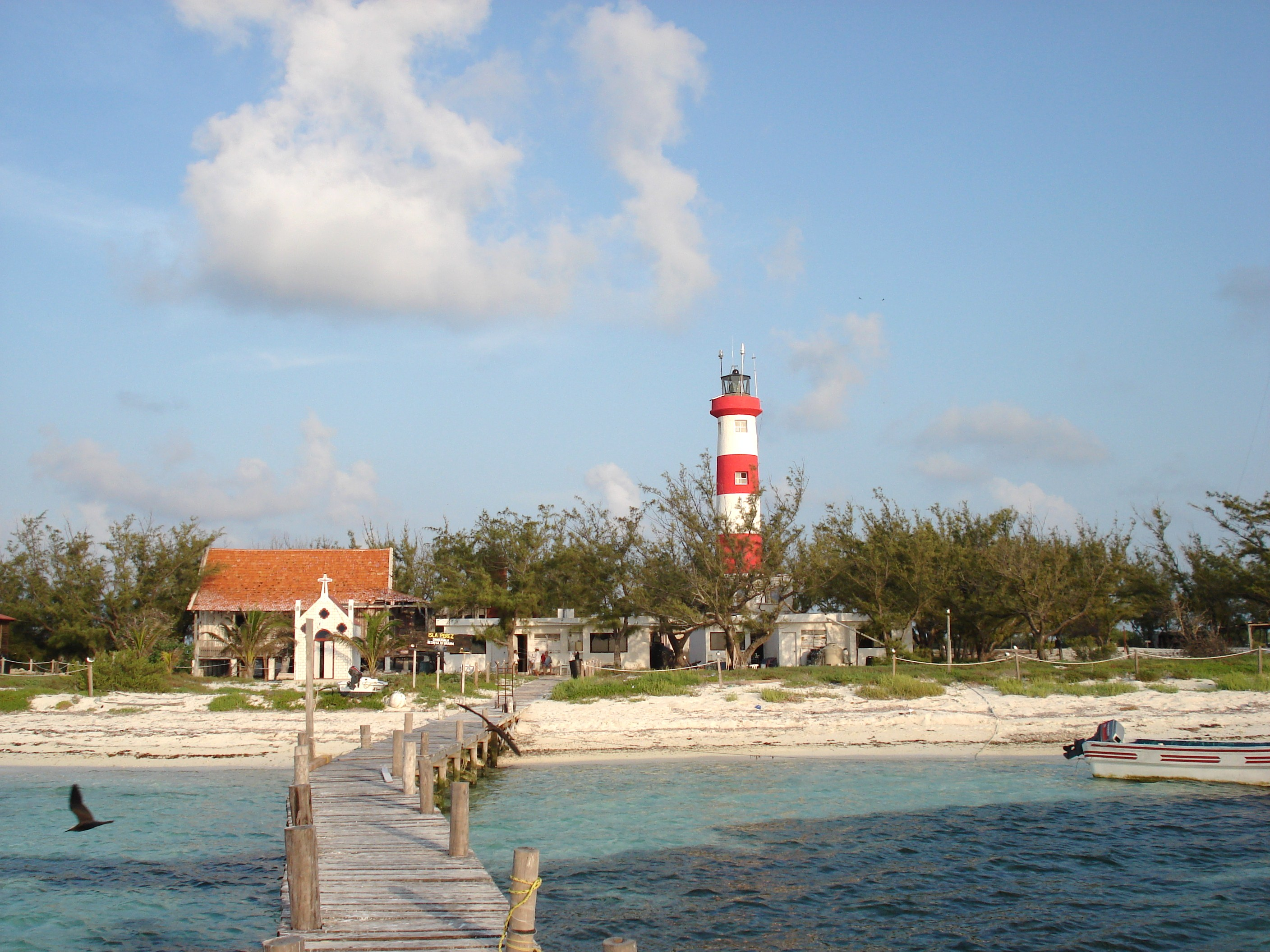 Isla Perez dock in Alacranes, Yucatan, Mexico